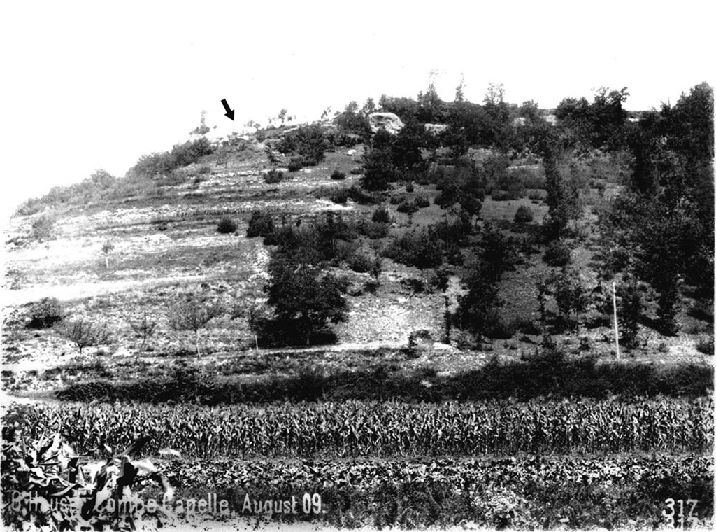 Combe Capelle site